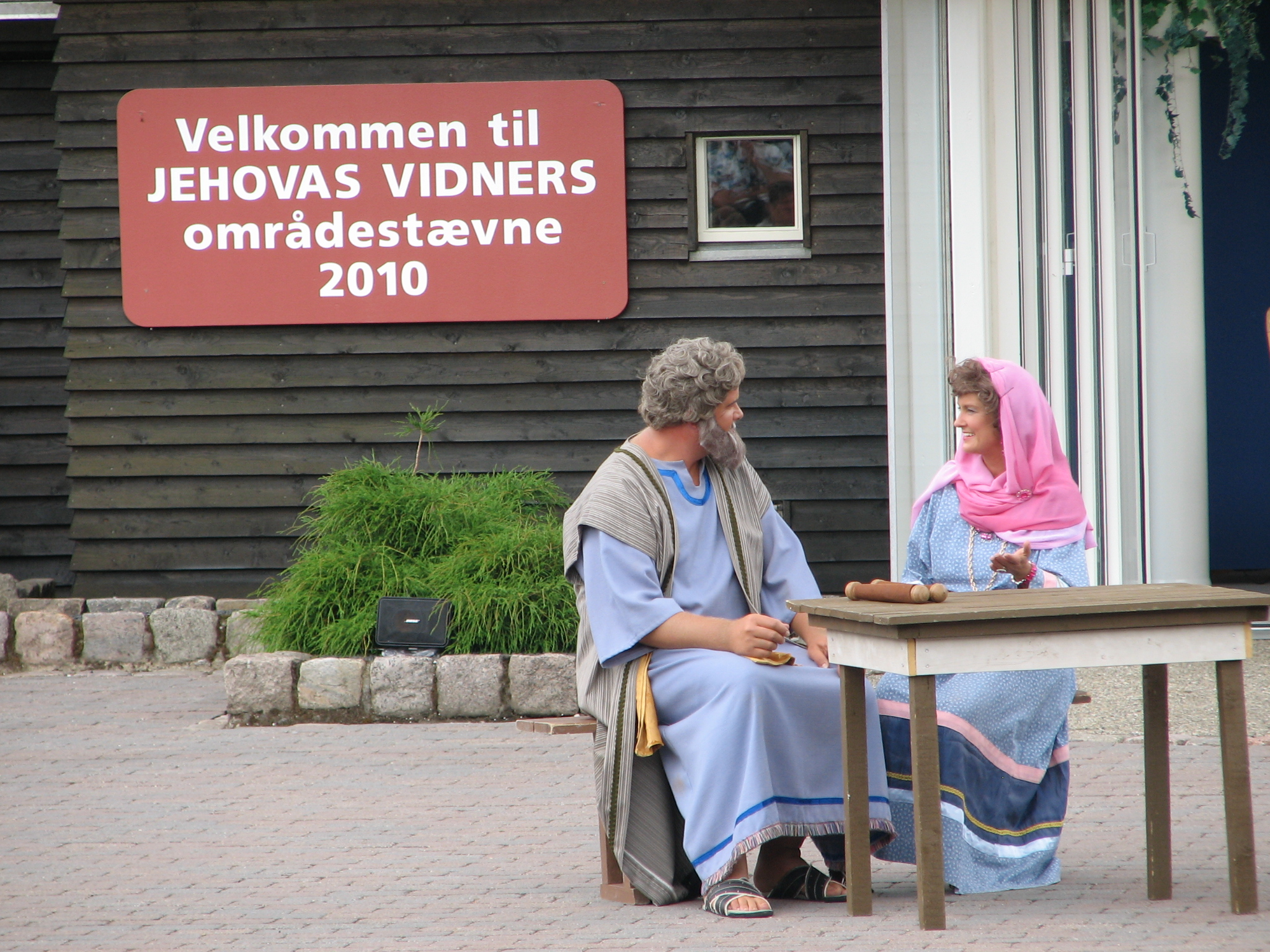 Two Jehovah's Witnesses Act in a drama on the convention in Silkeborg (Denmark) - 2010 (Conventionsite Silkeborg)